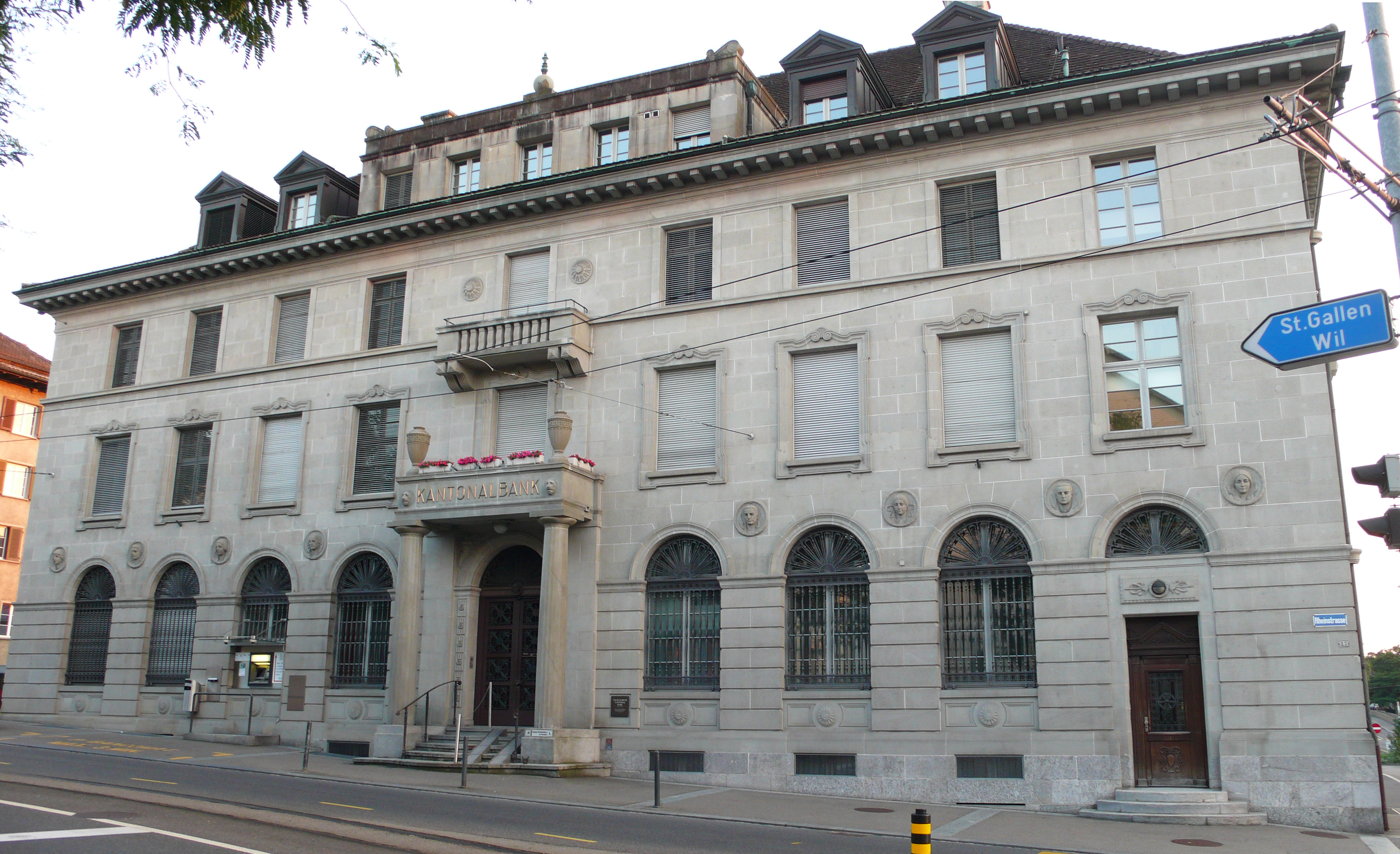 Cantonal Bank in Frauenfeld, Switzerland.